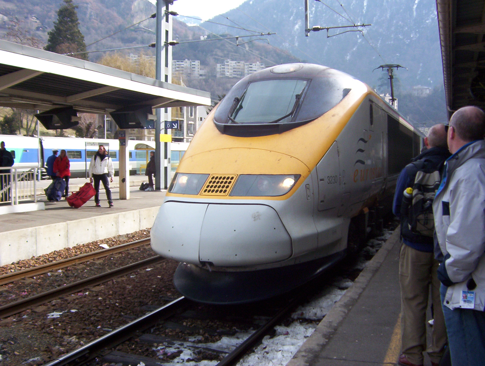 Eurostar 3229/3230 (3230 leading) to London Waterloo on 03/01/2003 arriving at Moûtiers railway station in Savoie, France (ski-train service).